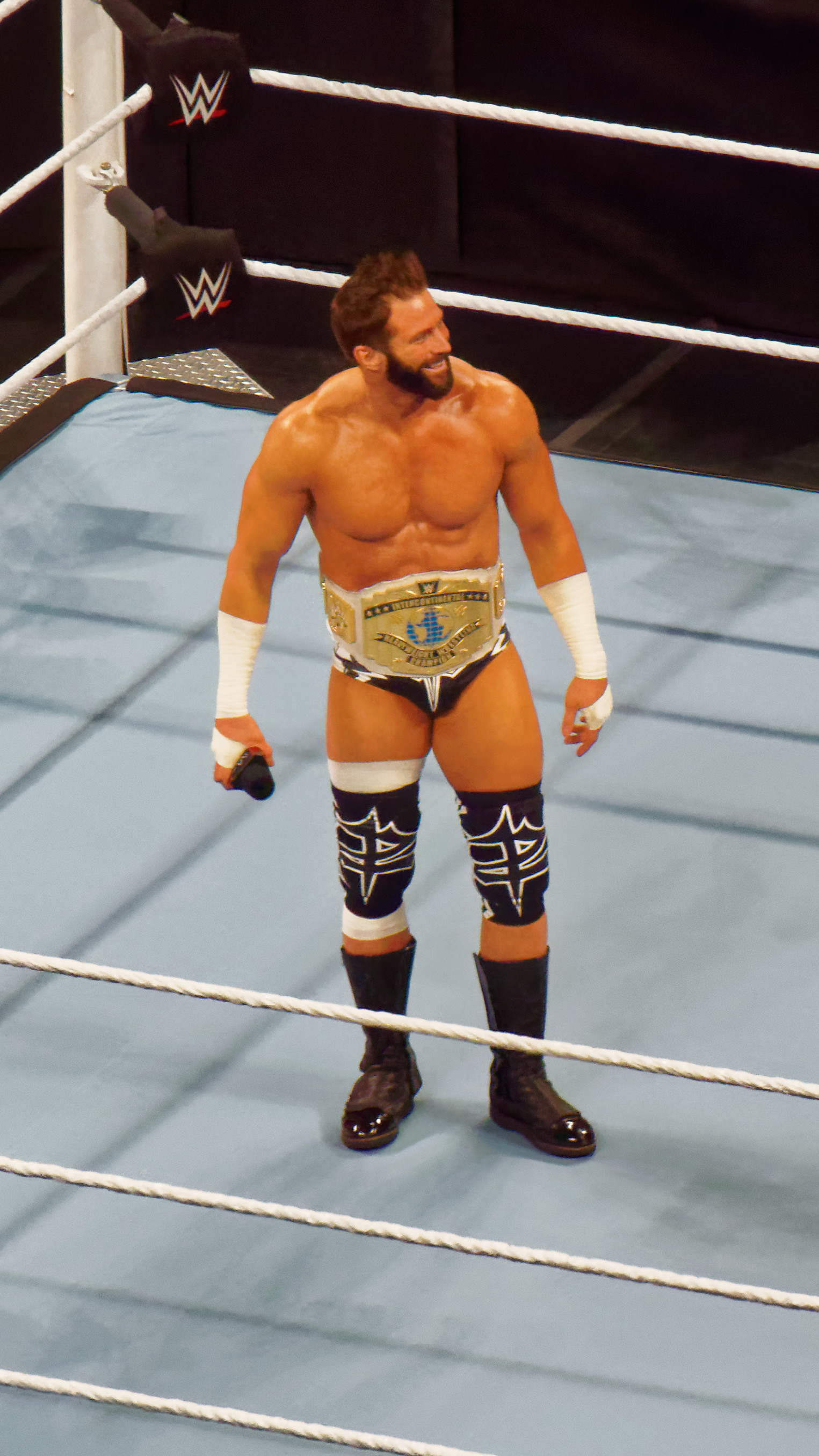 The raw after WrestleMania 32 The Miz def. (pin) Zack Ryder (c) (in 10:26) For : WWE Intercontinental Championship (title change)